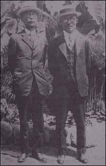 Philp jaison(left) and Dosan Ahn Changho(right), Ahn's home in L.A